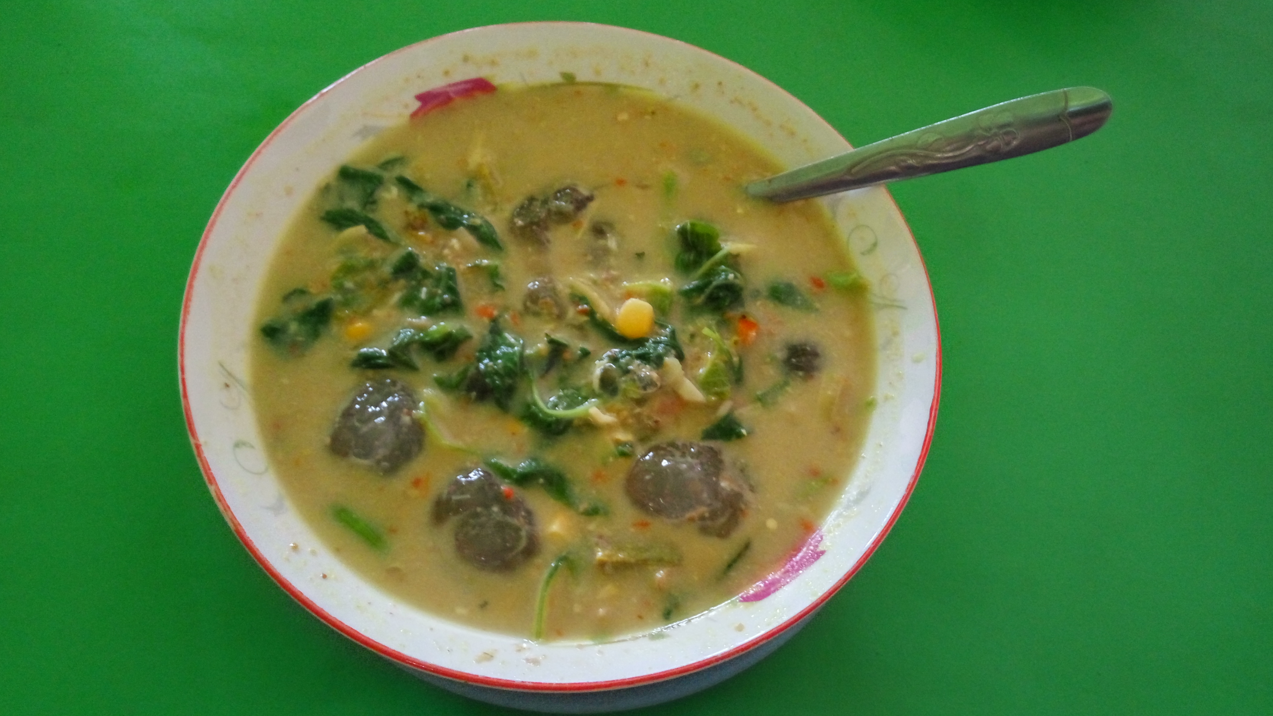 Kapurung, traditional cuisine from Celebes